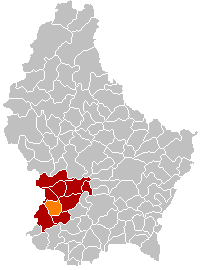 Own edit of Kanton CapellenLocatie.png